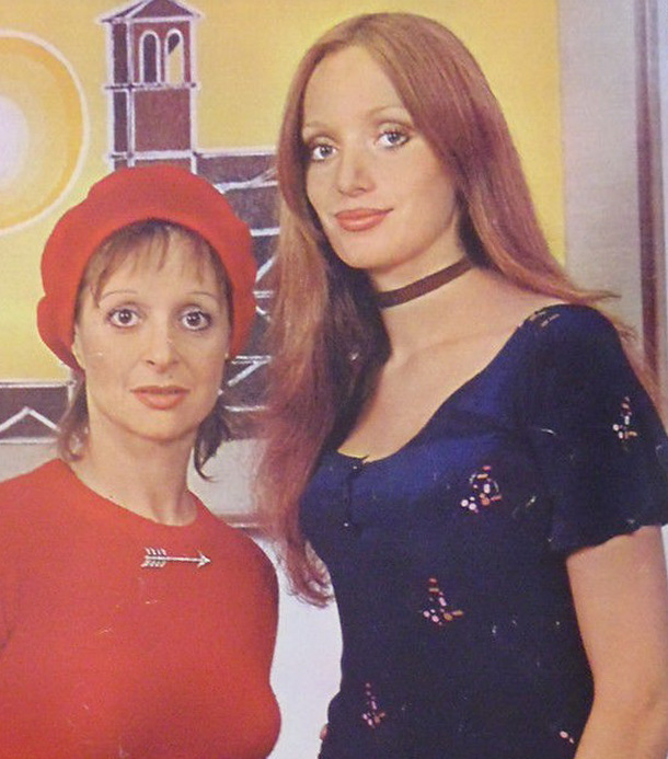 Italian actresses Adriana Asti and Delia Boccardo in Rome, on the set of the television film Come un uragano